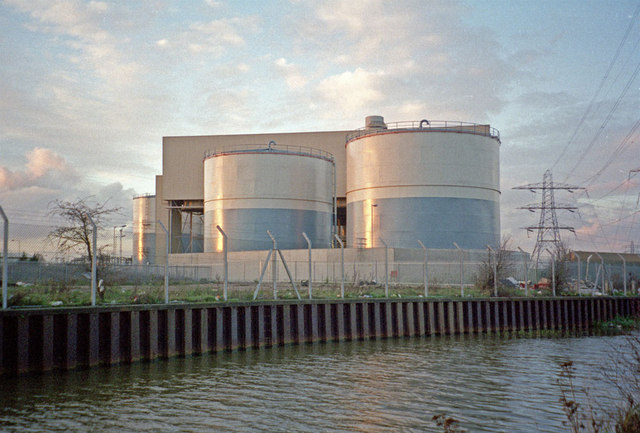 Industrial area at Brimsdown, Enfield Industrial area at Brimsdown, with River Lea and electricity pylons. Taken in the winter with the late afternoon sun shining off the cylindrical storage areas.